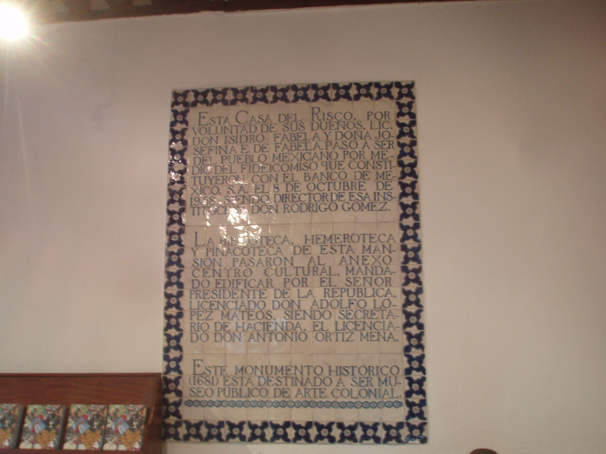 Casa del Risco, a mansion from the 17th century in San Ángel, Mexico City. Its interior contains a highly ornate Baroque fountain covered in plates, platters, cups and other ceramic pieces from Asia, Europe and Mexico. Currently a cultural center: Centro Cultural Isidro Fabela.